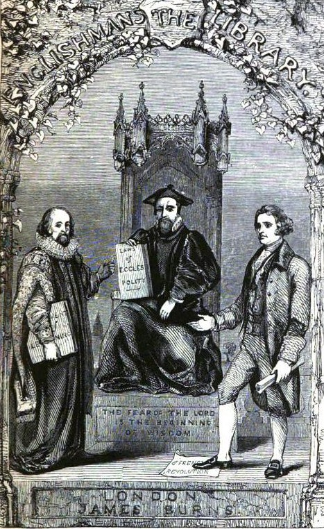 Frontispiece to vol. 10 of the "Englishman's Library", Christian Morals by William Sewell. Figures representing Francis Bacon, Richard Hooker, and Edmund Burke (identified by partial book titles). Found in 3rd edition of 1842.